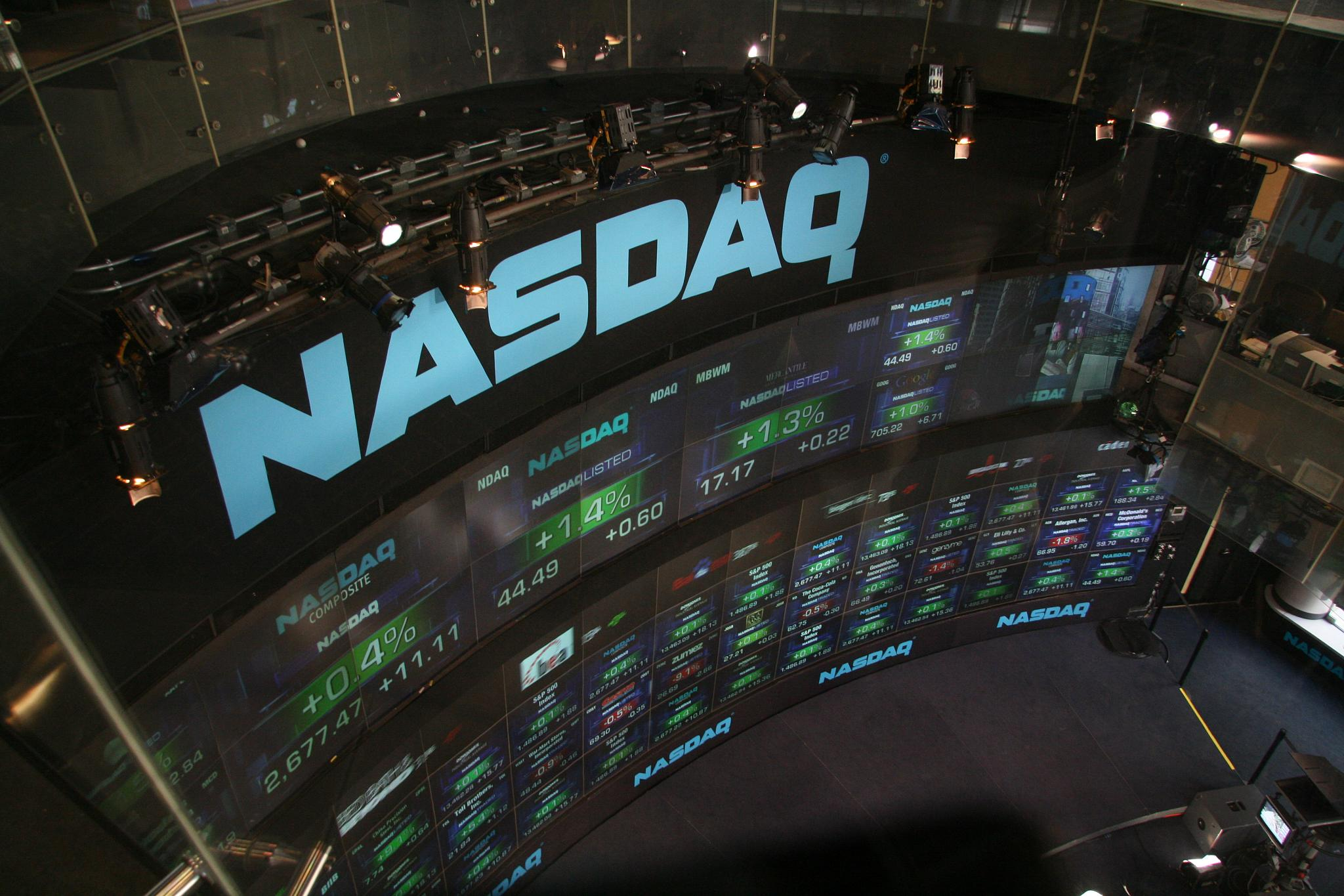 NASDAQ stock market displays at Times Square